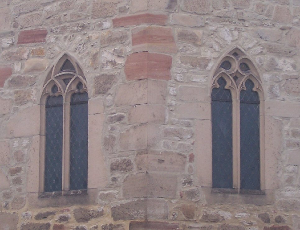 Details at the church in Witzelroda.